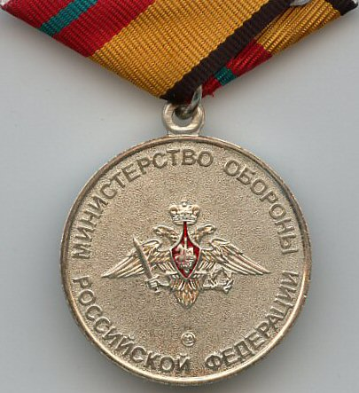 Reverse of the Medal "For Distinguished Military Service" 1st Class